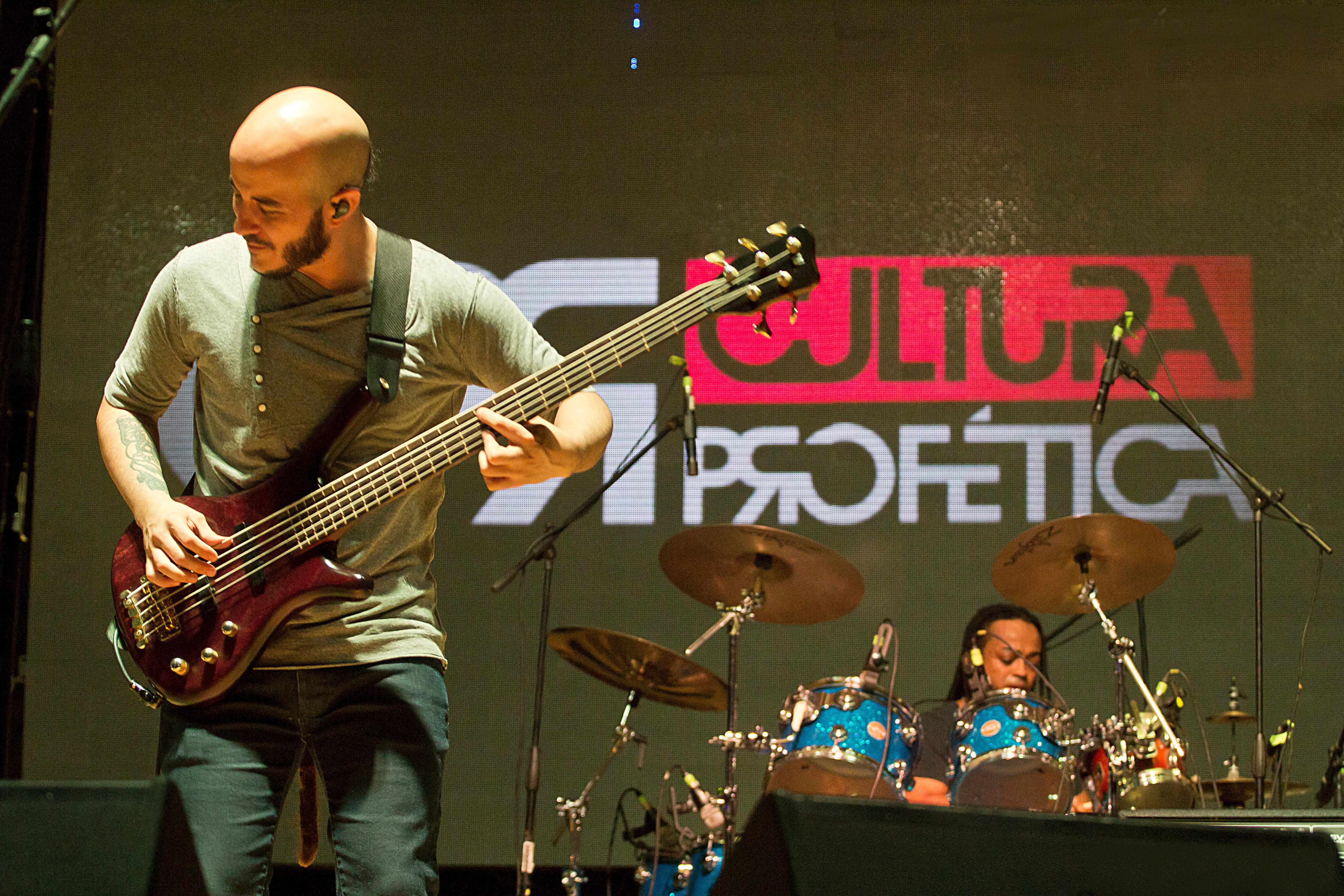 Cultura Profetica performing on February 16, 2013 in Nicaragua